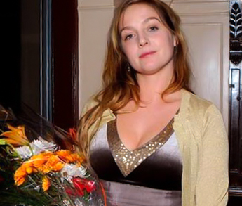 Awards, But Not Happiness: About To Be A Recluse, 1997